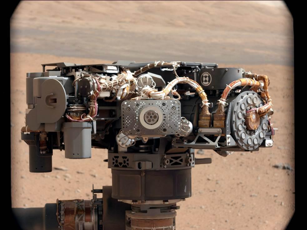 09.12.2012 Portrait of APXS on Mars This image shows the Alpha Particle X-Ray Spectrometer (APXS) on NASA's Curiosity rover, with the Martian landscape in the background. The image was taken by Curiosity's Mast Camera on the 32nd Martian day, or sol, of operations on the surface (Sept. 7, 2012, PDT or Sept. 8, 2012, UTC). APXS can be seen in the middle of the picture. This image let researchers know that the APXS instrument had not become caked with dust during Curiosity's dusty landing. Scientists enhanced the color in this version to show the Martian scene as it would appear under the lighting conditions we have on Earth, which helps in analyzing the terrain.